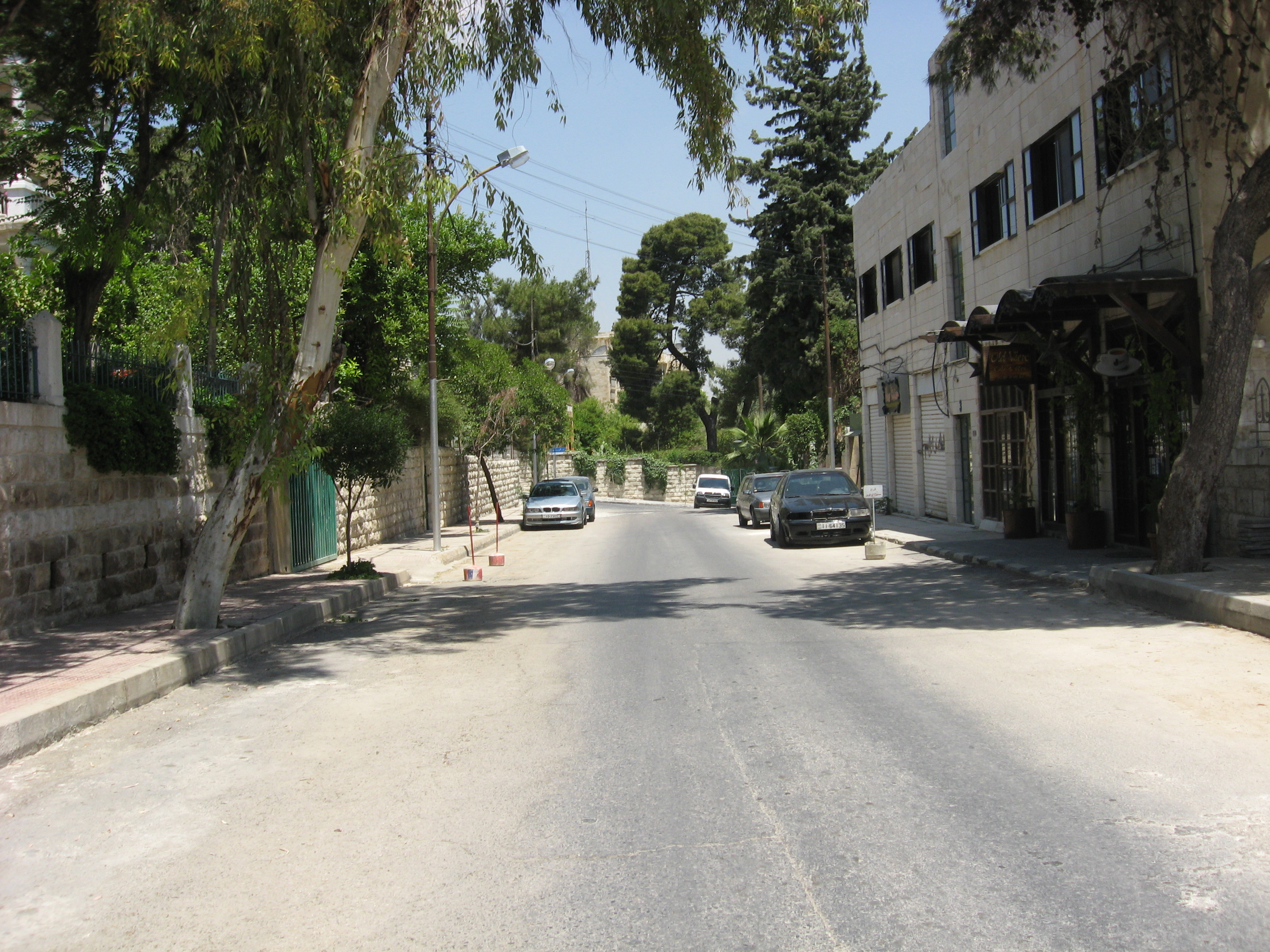 I snapped this pic of Mango Street, May 2008.